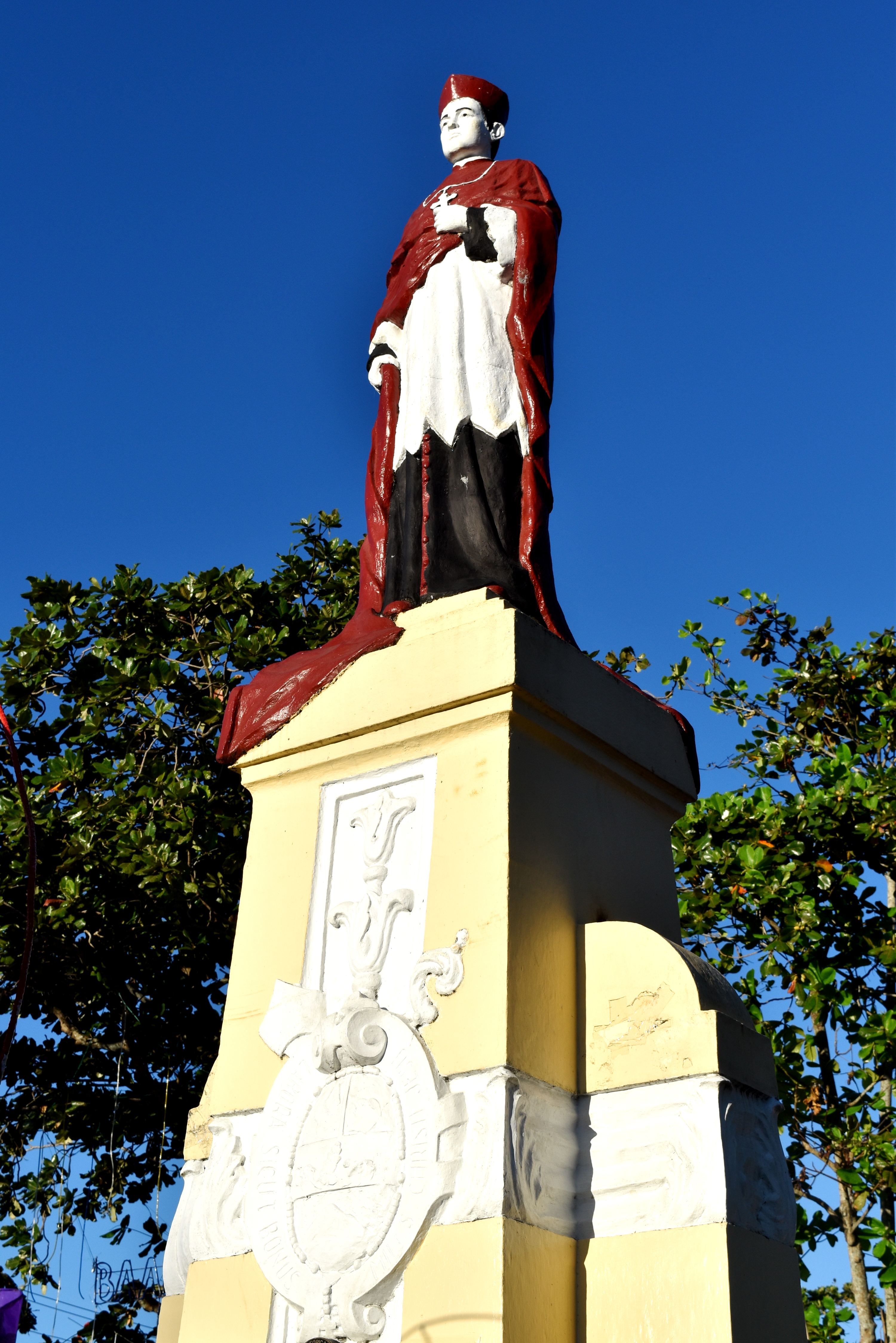 Msgr. George Ibarlin